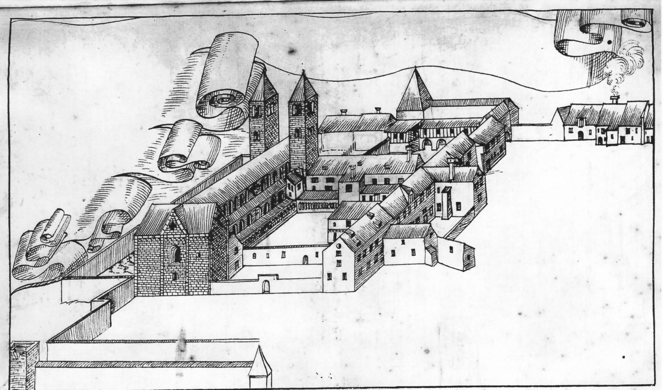 View of St. Jakob (Schottenkirche), Regensburg, from the southwest.